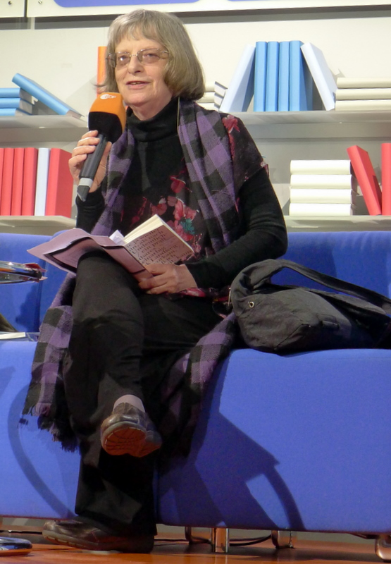 Elke Erb, German Lyricist, award from the German Houses of Literature 2011